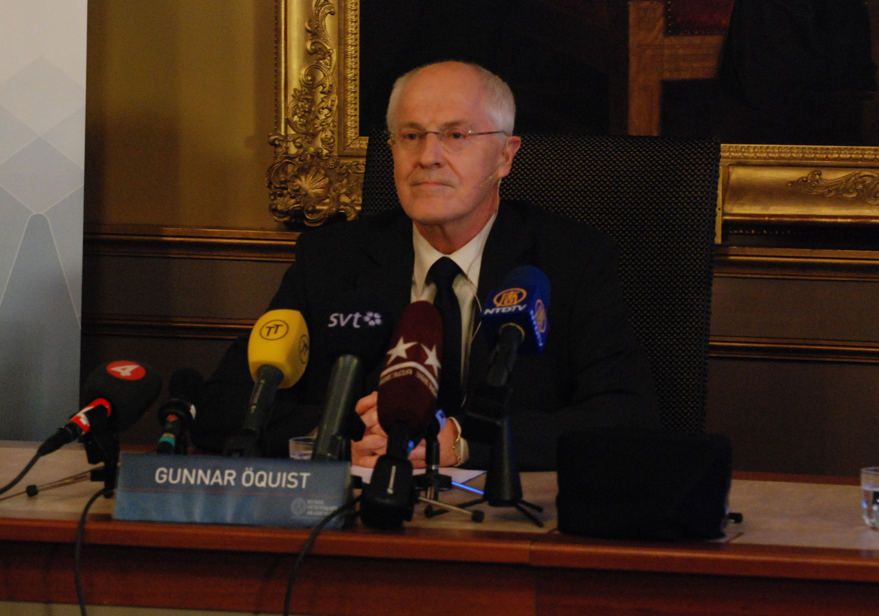 Announcement of the Laureates of the Nobel Prize in Chemistry 2009